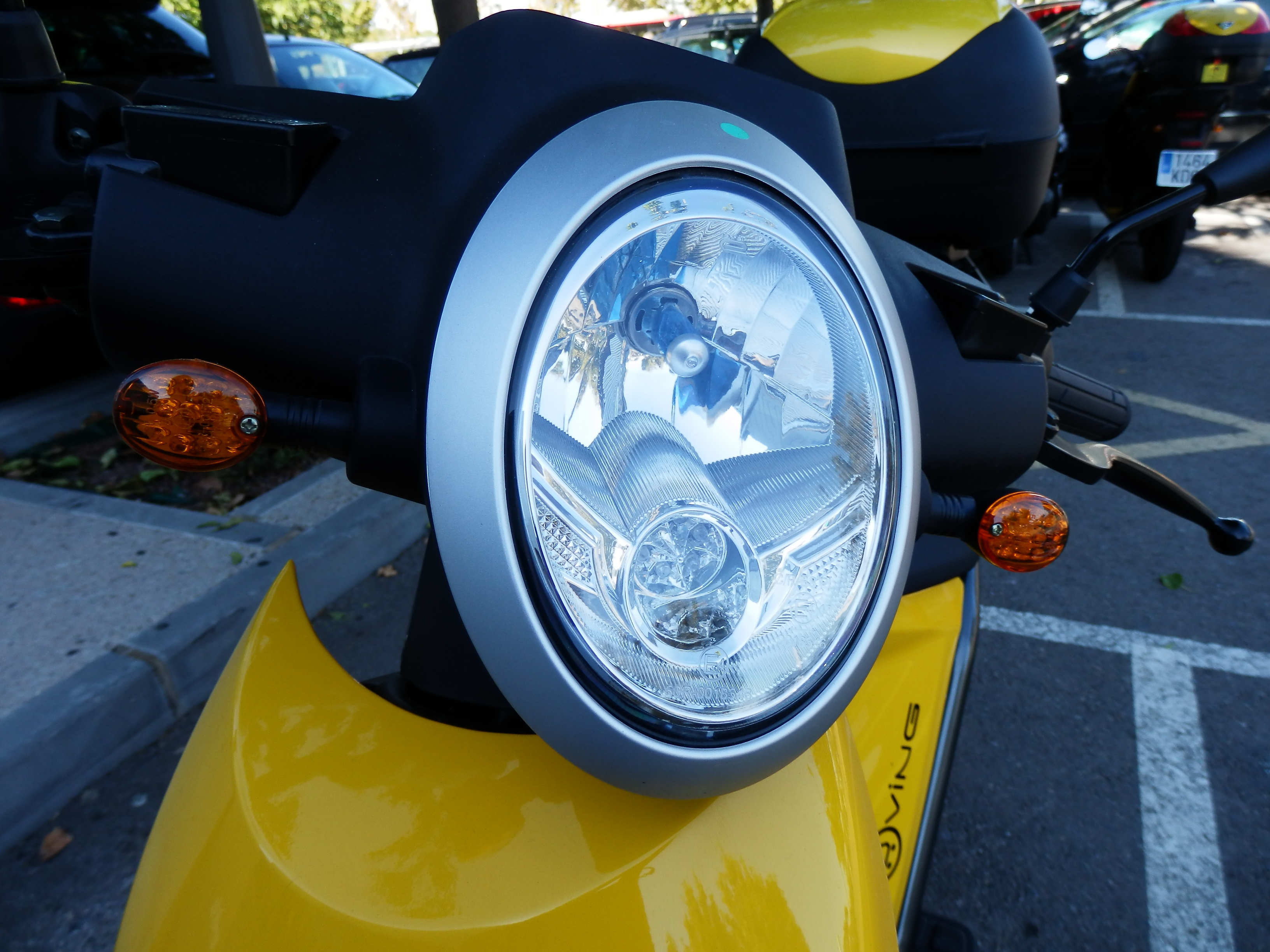 Torrot Muvi electric bike.